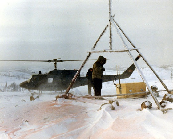 Operation Morning Light. A microwave ranging transponder unit is placed under a landmark. The distance limitations of the units meant constant movement was necessary as the search moved along the footprint.